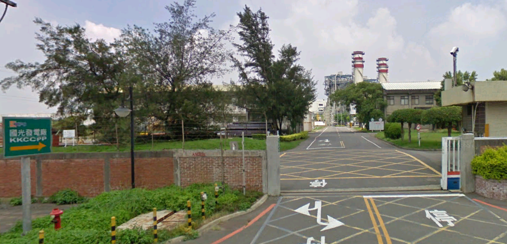 Kuokuang Gas-Fired Power Plant, Guishan Township, Taoyuan County, Taiwan